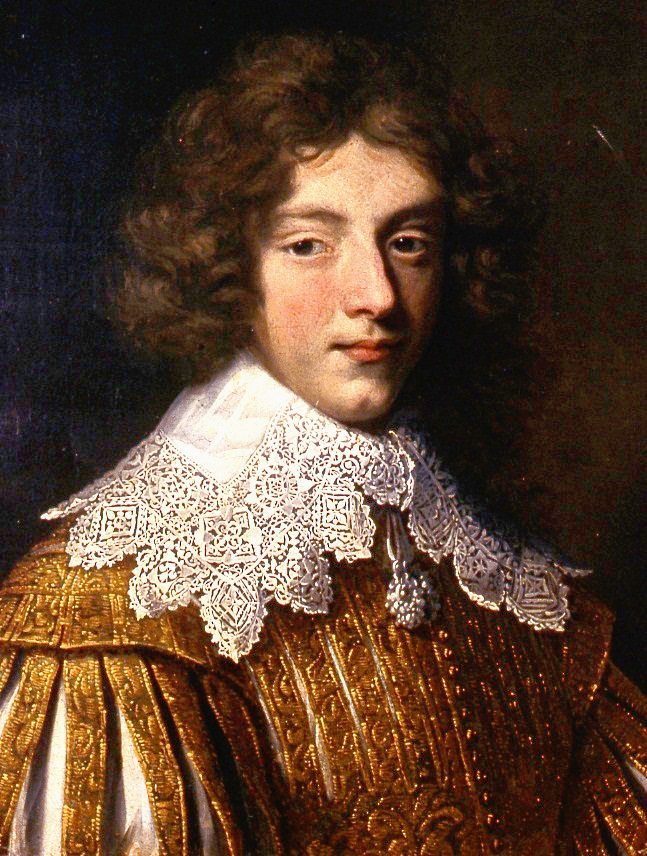 Portrait of Henri Coiffier de Ruzé, Marquis de Cinq-Mars (1620-1642)